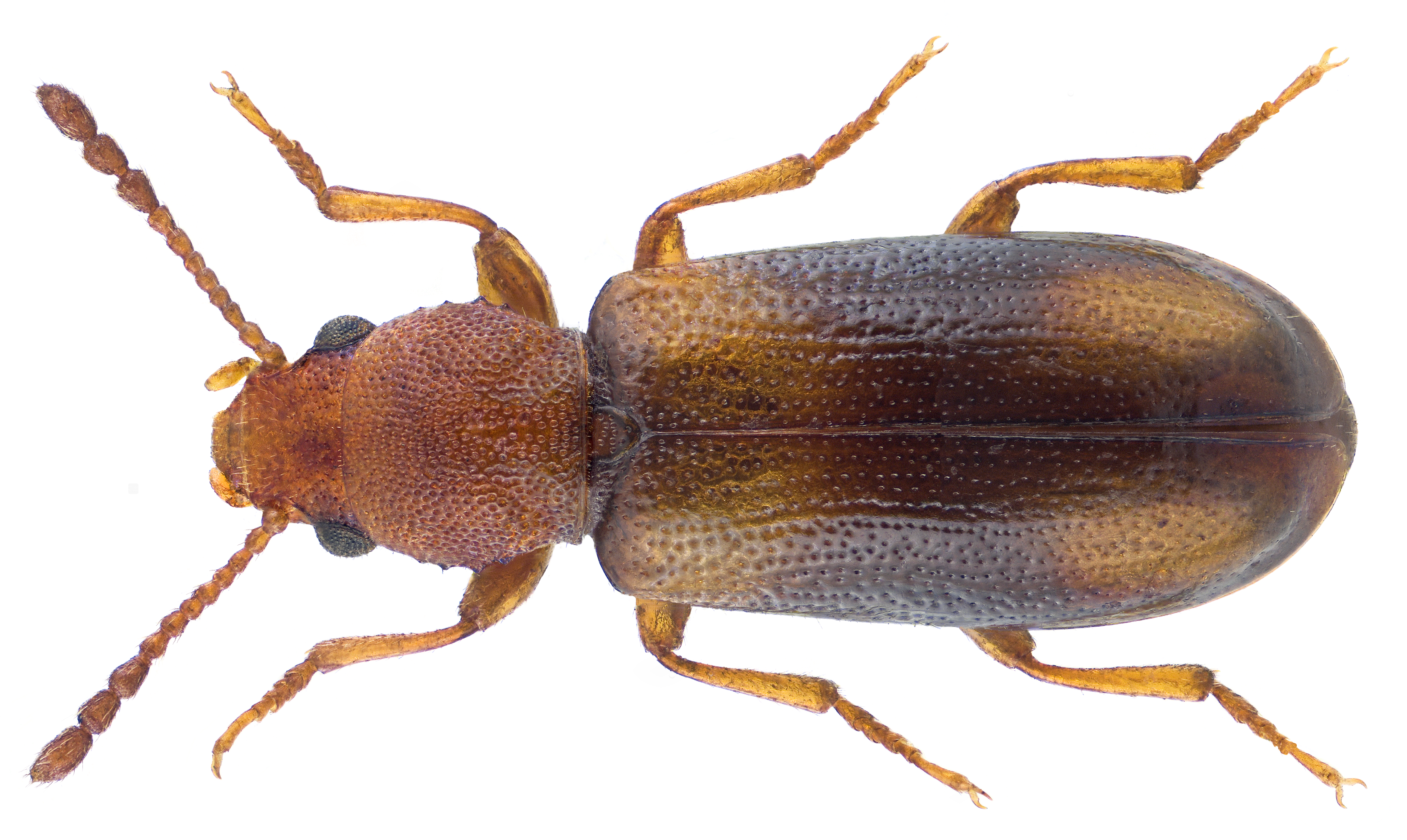 Lissodema denticolle (Gyllenhal, 1813) Syn.: Lissodema quadripustulatum (Marsham, 1802) Family: Salpingidae Size: 2.8 mm (2.5 to 3.3 mm) Distribution: Europe Ecology: Development in the dry branches of deciduous trees Location: England, Harpenden leg.det. P.Harwood,29.VIII.1924 Coll. Oxford University Museum of Natural History Photo: U.Schmidt, 2018